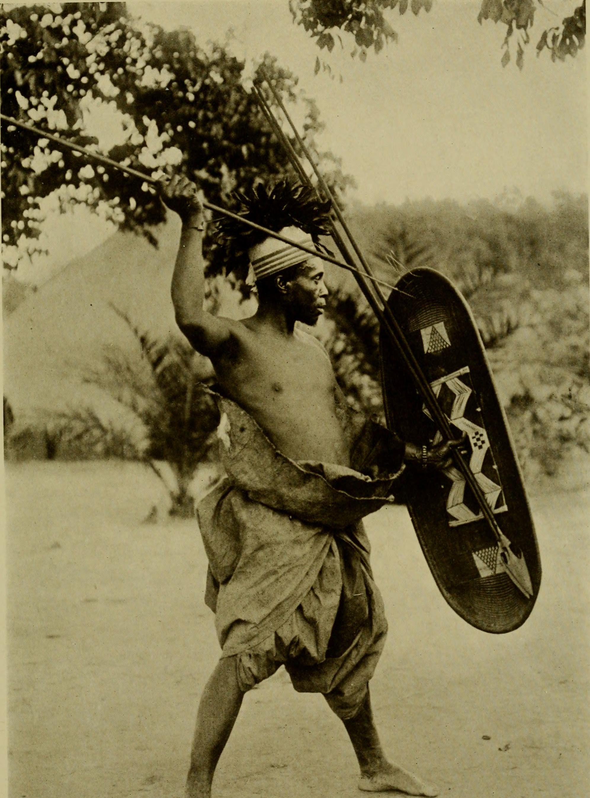 Title: The American Museum journal Year: c1900-(1918) (c190s) Authors: American Museum of Natural History Subjects: Natural history Publisher: New York : American Museum of Natural History Text Appearing Before Image: ' Text Appearing After Image: Photo by Herbert Lang BAFUKA, AN AVUNGURA-AZANDE CHIEF At the head of his Azande warriors (Uele District, Belgian Congo), he helped Commandant Chaltin drive the Dervishes out of the Congo in 1897. His shield is of rattan ; his garment is of bark cloth. Spear and shield are going out of use in the Congo both for war and the hunt because of the im- portation of guns. The flintlock is the only gun allowed to be sold to natives, although a limited number of percussion-cap guns are granted to chiefs